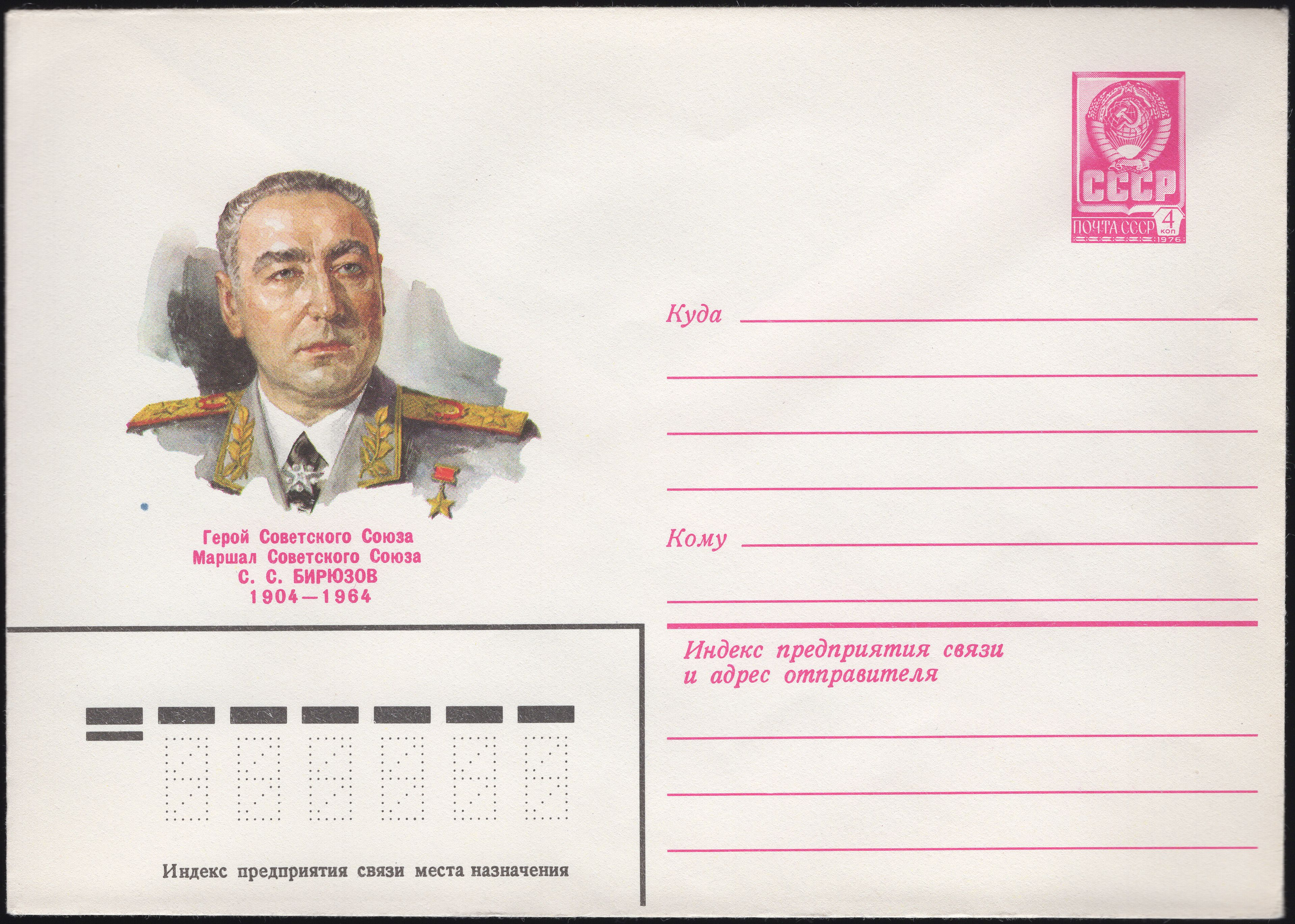 Hero of the Soviet Union Marshal of the Soviet Union Sergey Biryuzov. 1904-1964. Series: Heroes of the Soviet Union. Artist Peter Bendel.